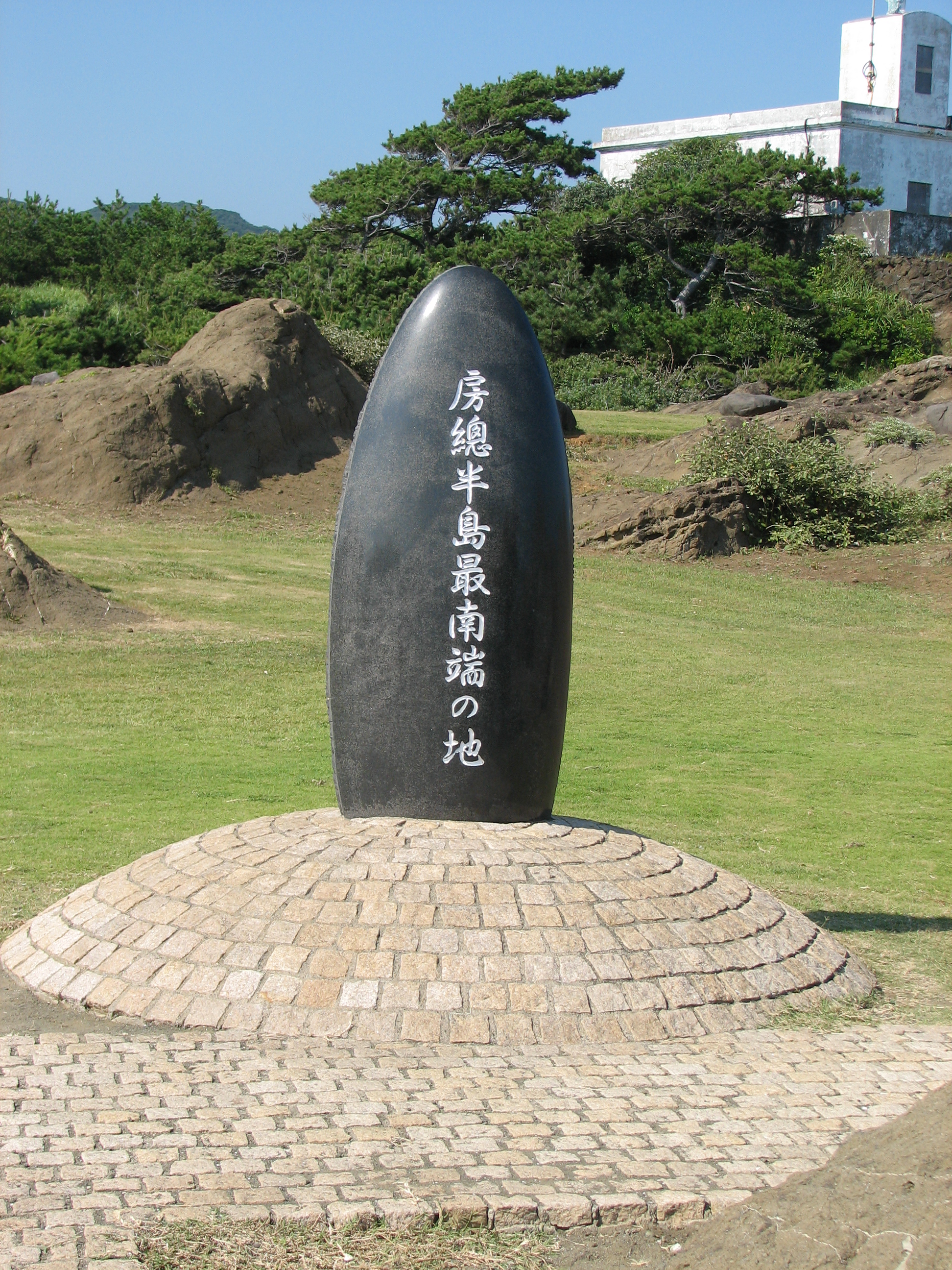 The south end of Bōsō Peninsula 野島埼にある房総半島最南端の地の石碑